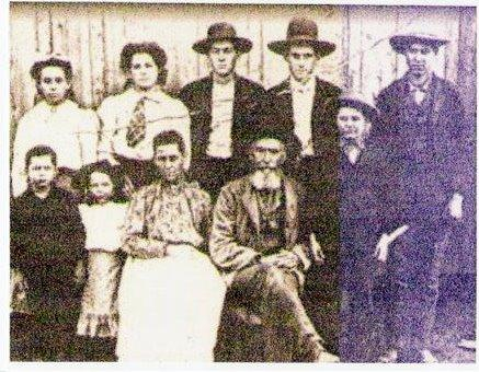 The Old Southern Cherokee of Scuffletown & Henderson, KY, circa 1890-1910